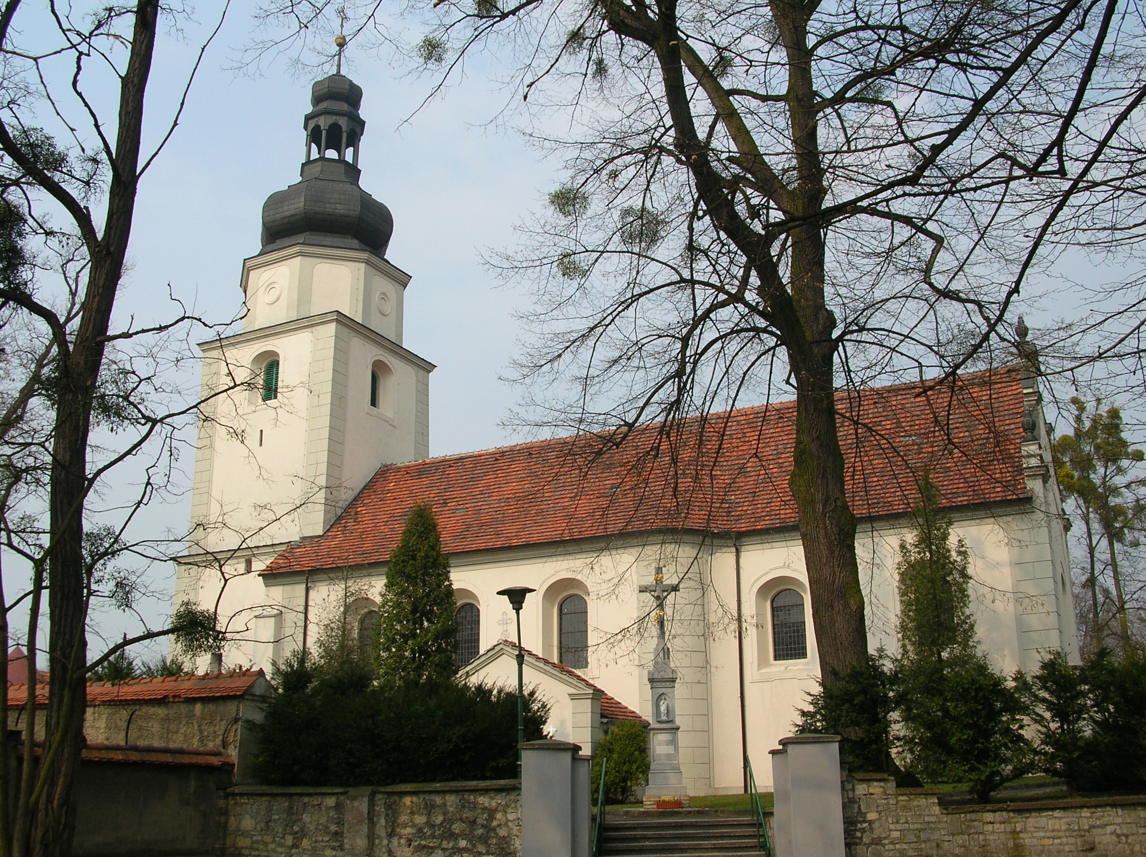 Church in Żyrowa (Opole Silesia)